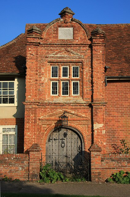 Ye Olde River House The plaque above the windows states that this gateway was built in 1490, making it one of the oldest buildings in Kersey.